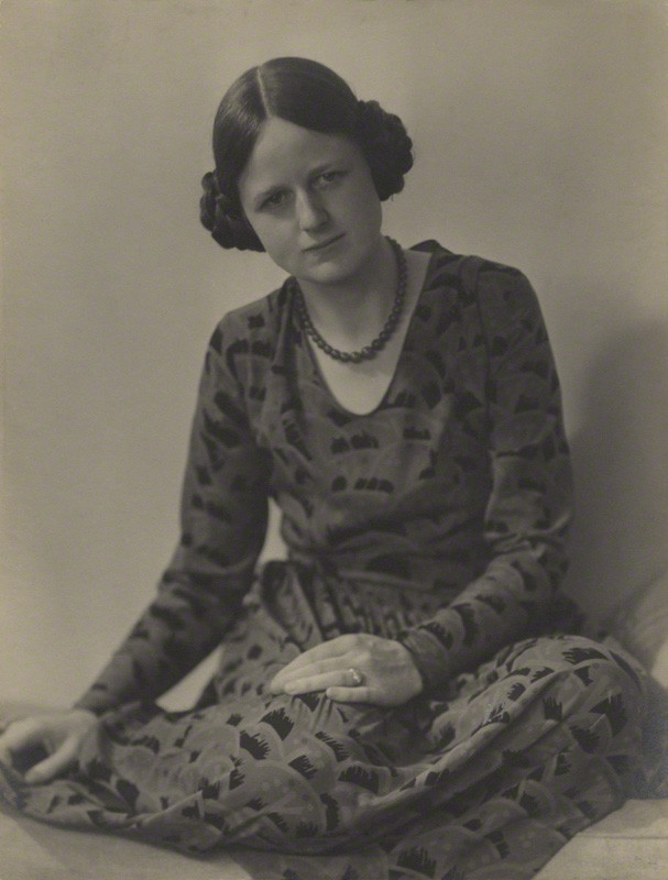 Economist Joan Violet Robinson in a photograph taken by the firm of Ramsey & Muspratt. The specific author of the photograph is unidentified. The photo is dated to the 1920s. In 1988, Jane Burch donated a copy to the National Portrait Gallery, London.